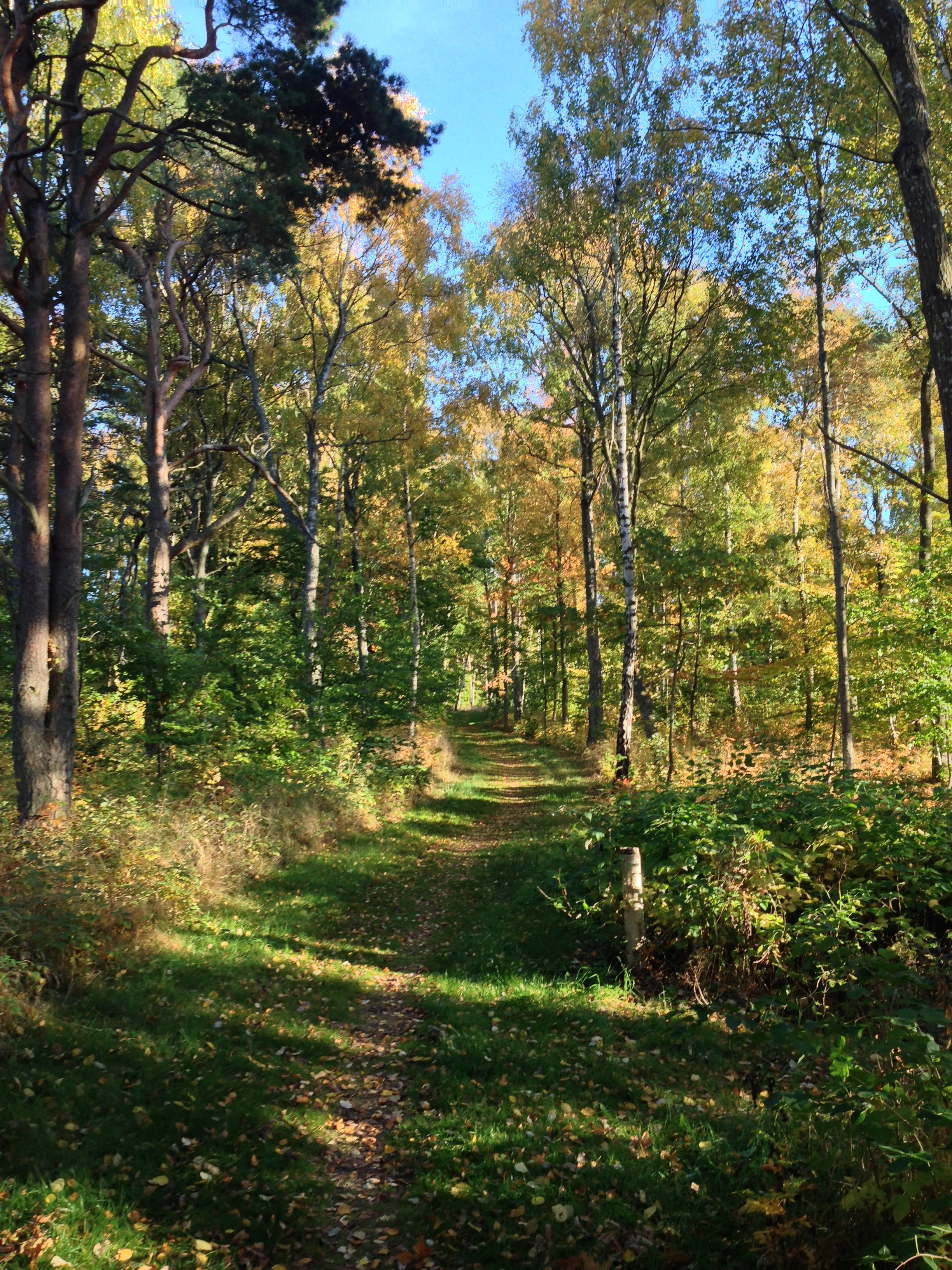 Bokstigen, Eskilstorpsstrand, Båstad